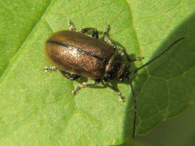 A Chrysomelid beetle This insect belongs to the very large family of Chrysomelidae (the Leaf Beetles). The one shown here is resting on the leaf of a Bird Cherry tree. It is possibly a Heather Beetle (Lochmaea suturalis), a fairly common species that is named after the plant on which it usually feeds. For comparison, – that site also illustrates the other two British species in the genus Lochmaea, namely, L. caprea (Willow Leaf Beetle) and L. crataegi (Hawthorn Leaf Beetle).